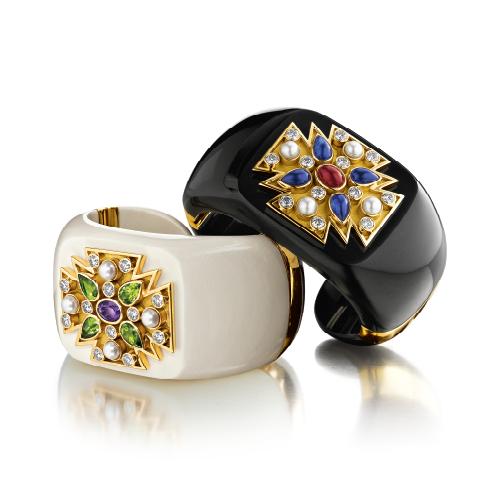 Verdura Maltese Cuffs in in black jade and mammoth.